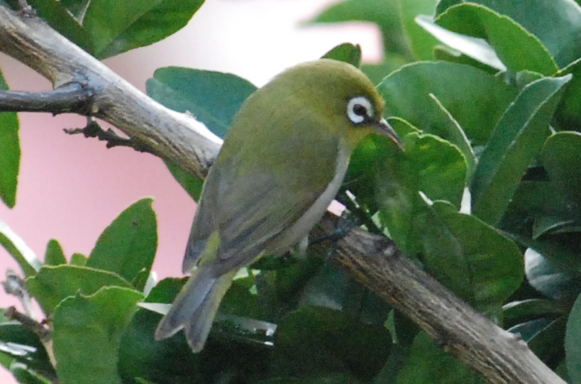 Zosterops xanthochroa : Green-backed White-eye